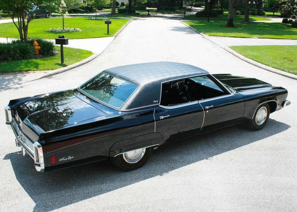 1973 Oldsmobile Ninety-Eight